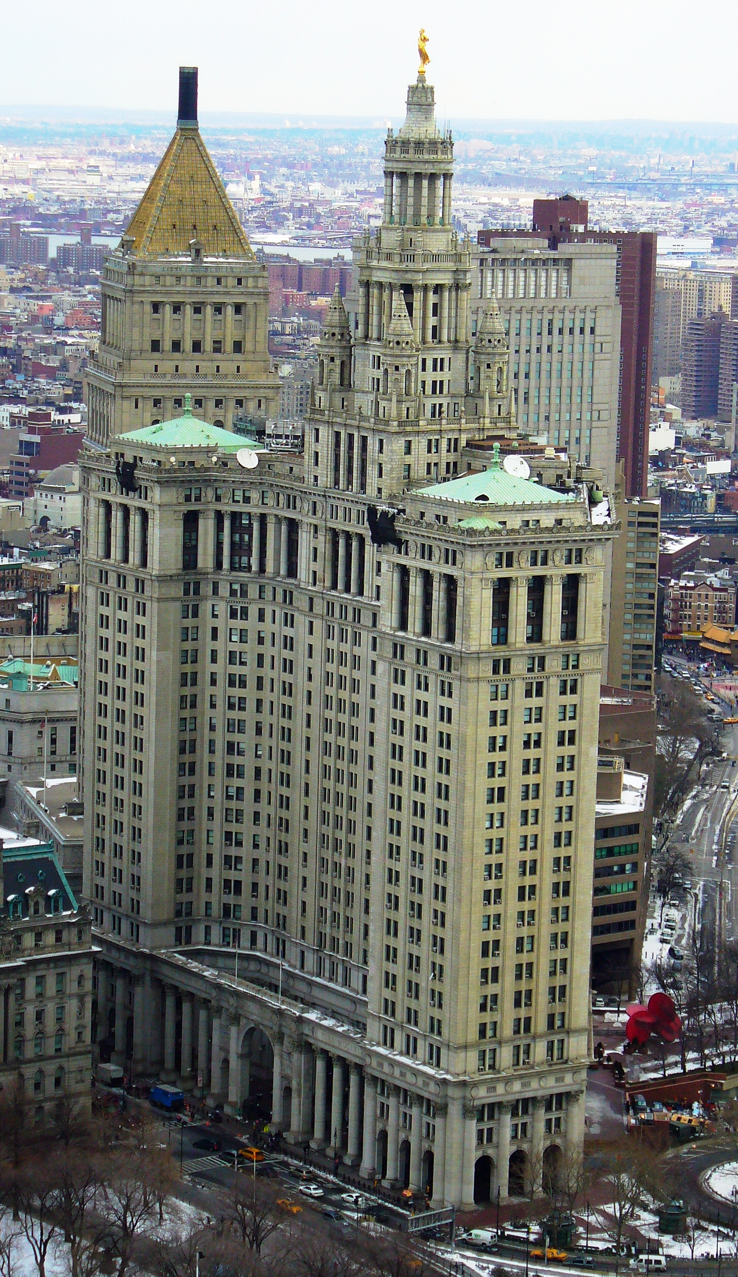 Looking east-northeast at Manhattan Municipal Building. Confucius Plaza in Chinatown is seen behind the building. Cooperative Village in the background on the right. Walkway on right crosses Park Row to One Police Plaza. East River in far background.